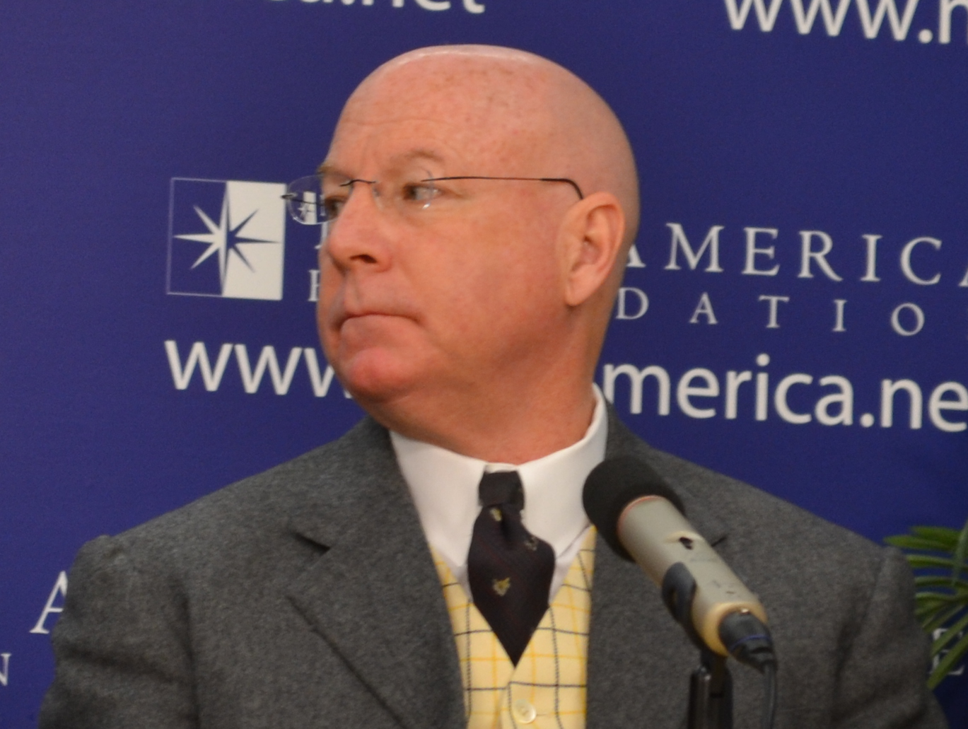 Giselle Donnelly (writer); born Thomas Donnelly.